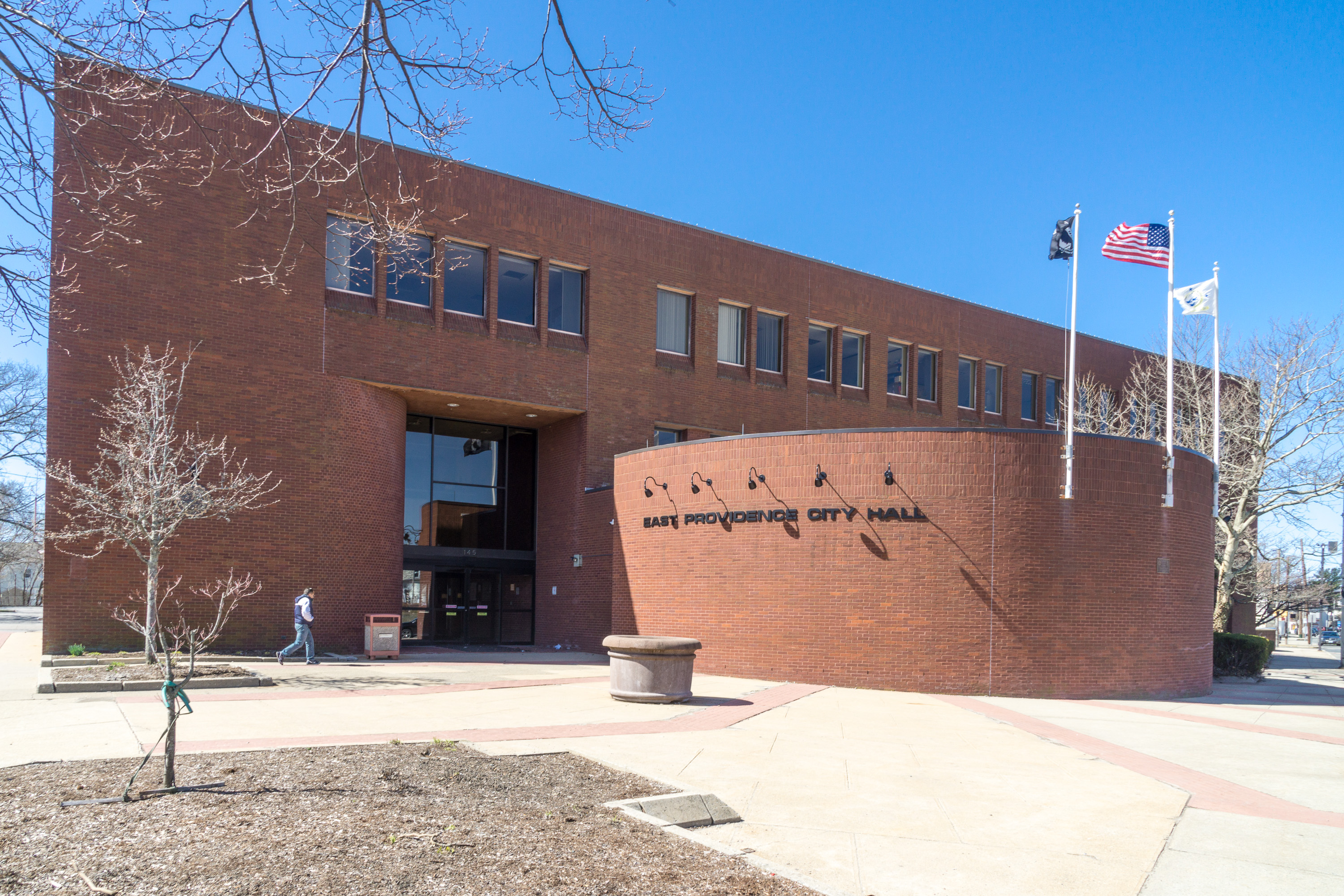 East Providence City Hall, Rhode Island